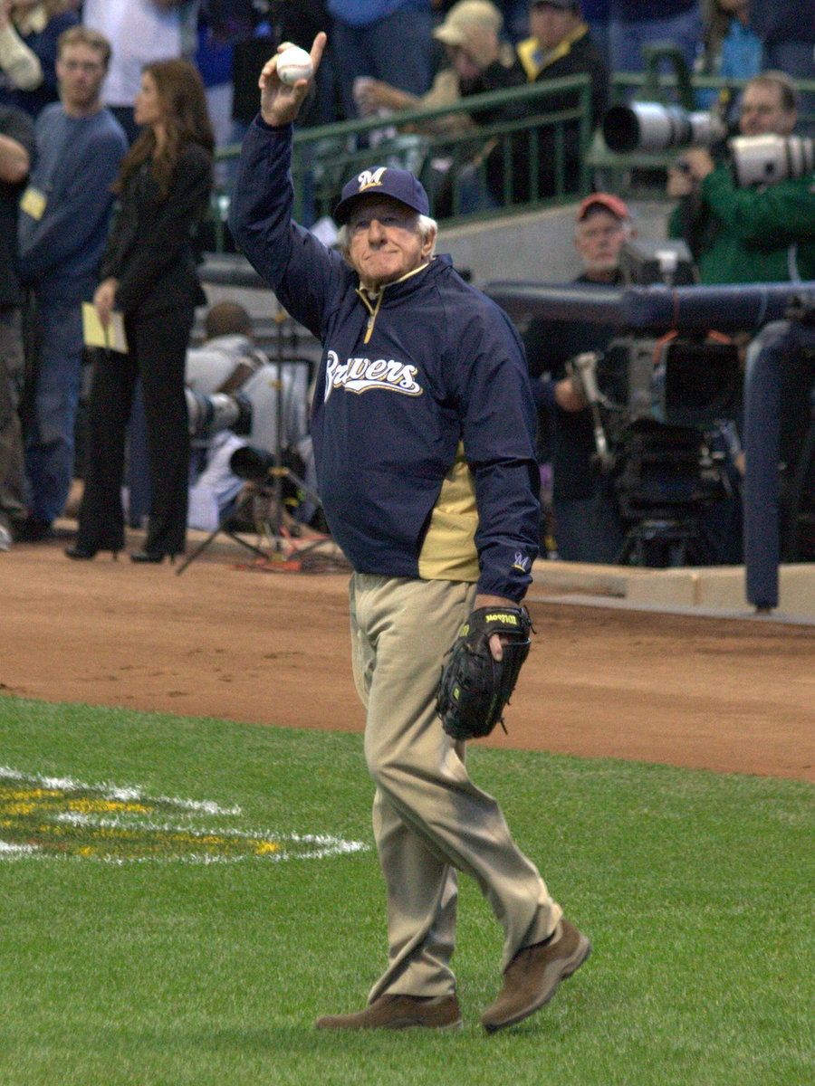 Bob Uecker acknowledges the crowd at Miller Park shortly before throwing out the ceremonial first pitch prior to the start of Game 1 of the NL Division Series between the Milwaukee Brewers and Arizona Diamondbacks on October 1st, 2011.